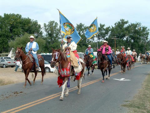 Photo of Pauline Small. First woman official of the Crow Tribal Council.